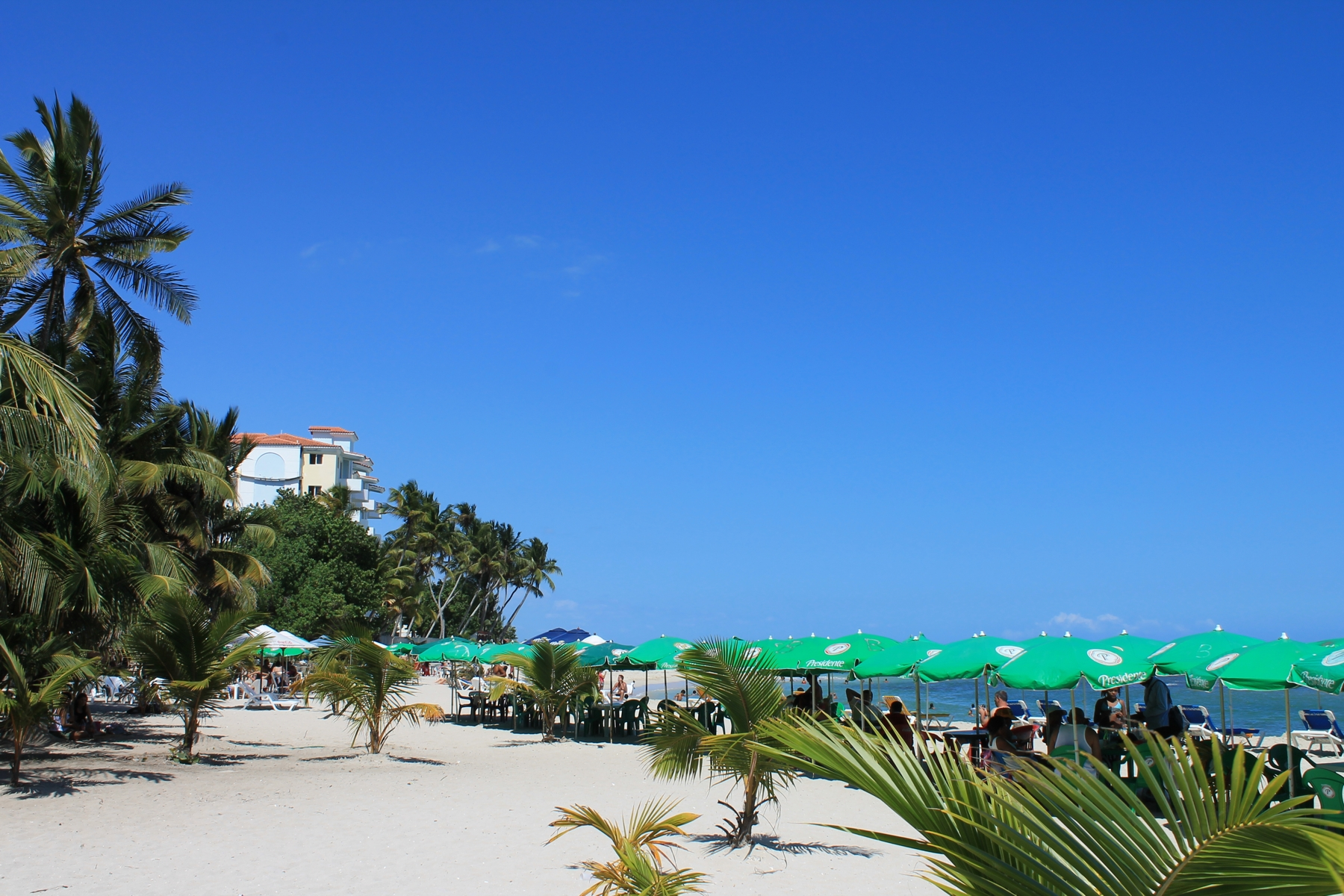 The public beach of Juan Dolio.